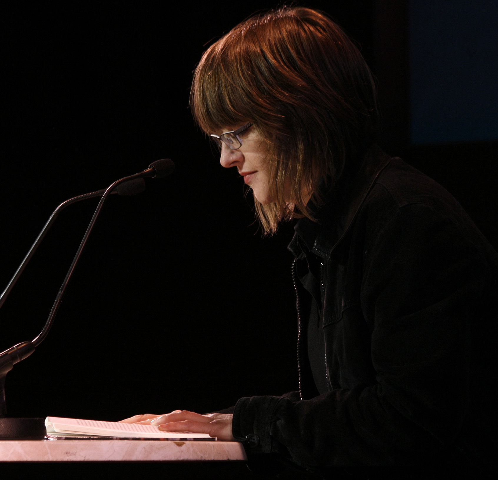 Austrian writer Angelika Reitzer at a reading in Vienna.